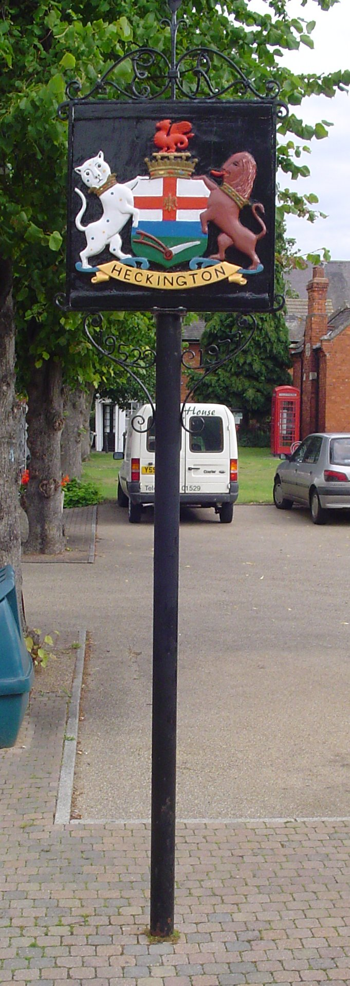 Signpost in Heckington